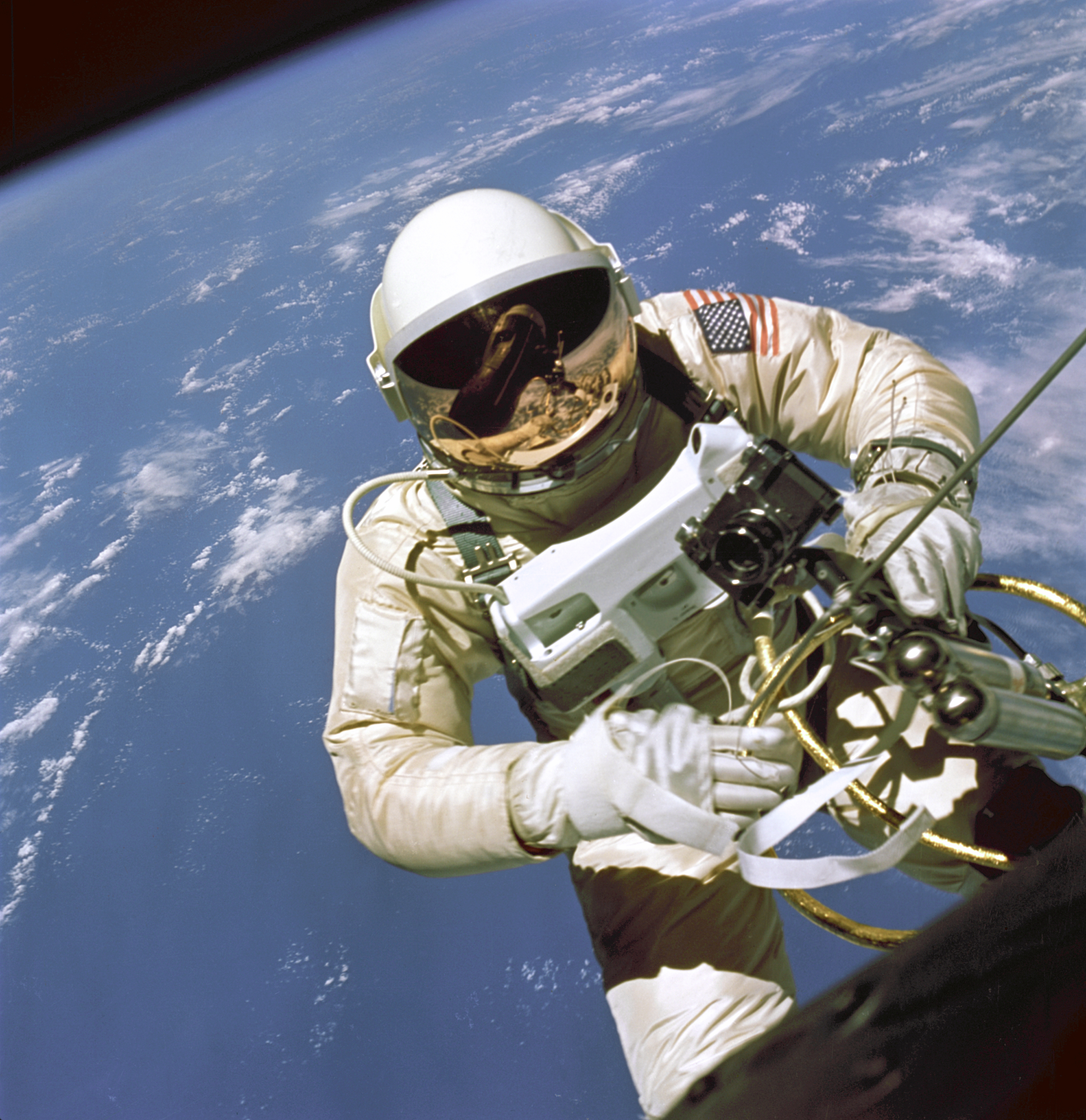 On June 3, 1965 Edward H. White II became the first American to step outside his spacecraft and let go, effectively setting himself adrift in the zero gravity of space. For 23 minutes White floated and maneuvered himself around the Gemini spacecraft while logging 6500 miles during his orbital stroll. White was attached to the spacecraft by a 25 foot umbilical line and a 23-ft. tether line, both wrapped in gold tape to form one cord. In his right hand White carries a Hand Held Self Maneuvering Unit (HHSMU) which is used to move about the weightless environment of space. The visor of his helmet is gold plated to protect him from the unfiltered rays of the sun.